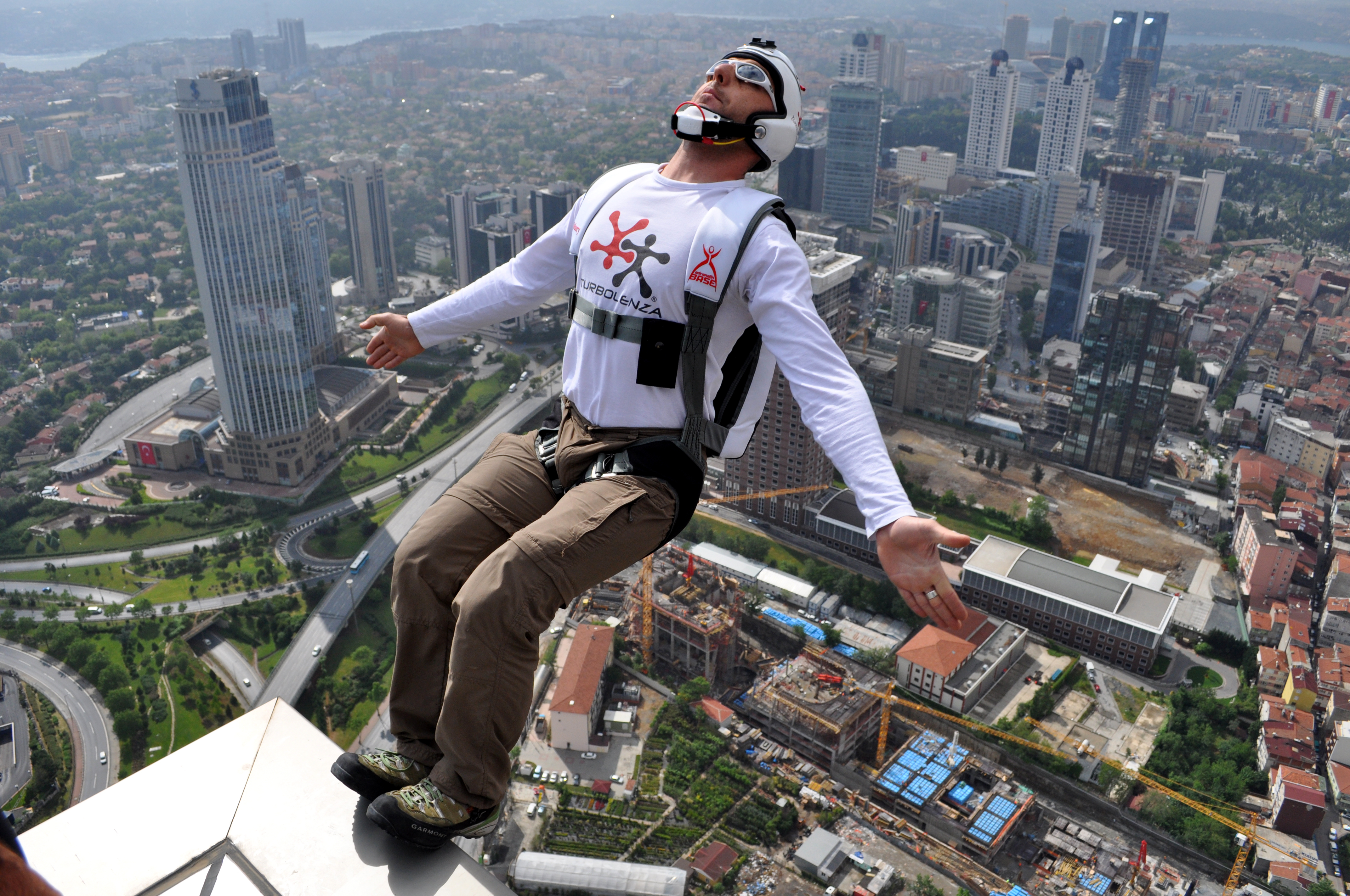 BASE Jumping from Sapphire Tower in Istanbul during Probase Birden Sapphire Showdown